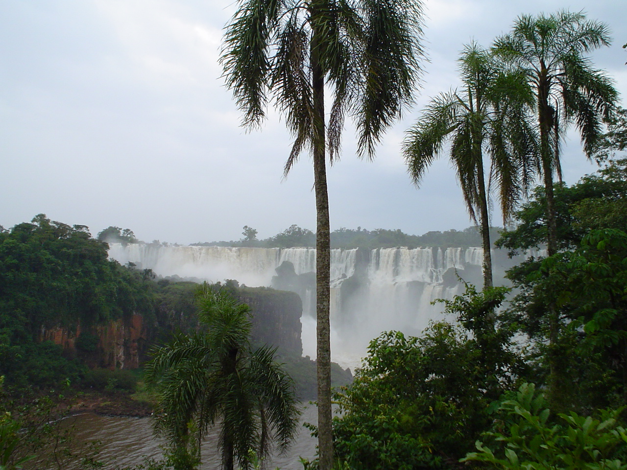 View of the falls on the Argentinian side. Author: Carlos Ponte